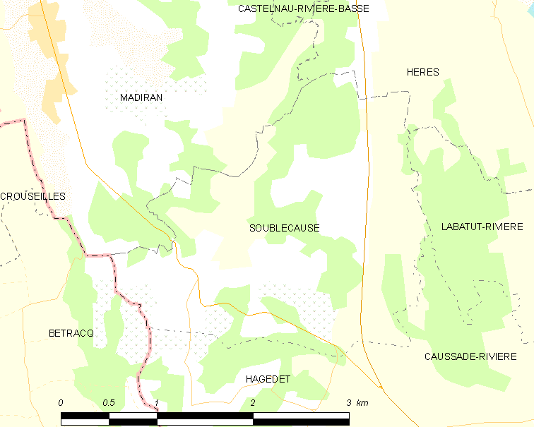 Map of French municipality